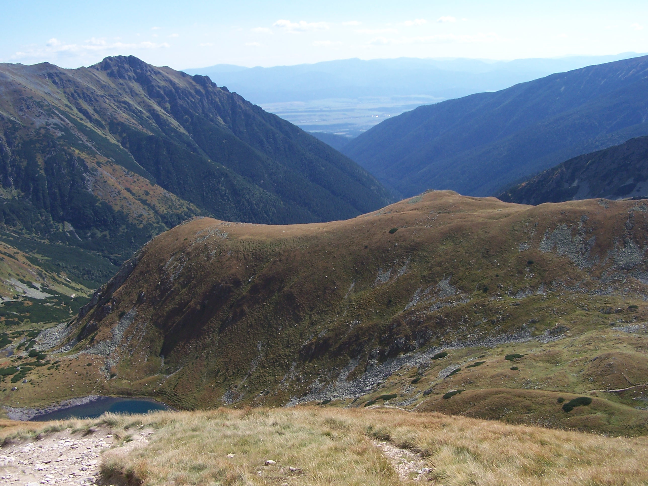 Jamnicka Dolina (West Tatra Mountains)